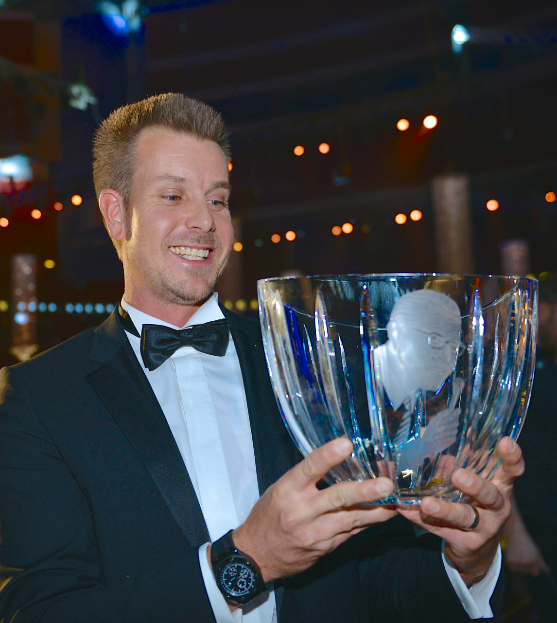 Henrik Stenson wins Jerring Prize 2013 at the Swedish Sports Gala at the Ericsson Globe in Stockholm on January 13, 2014.